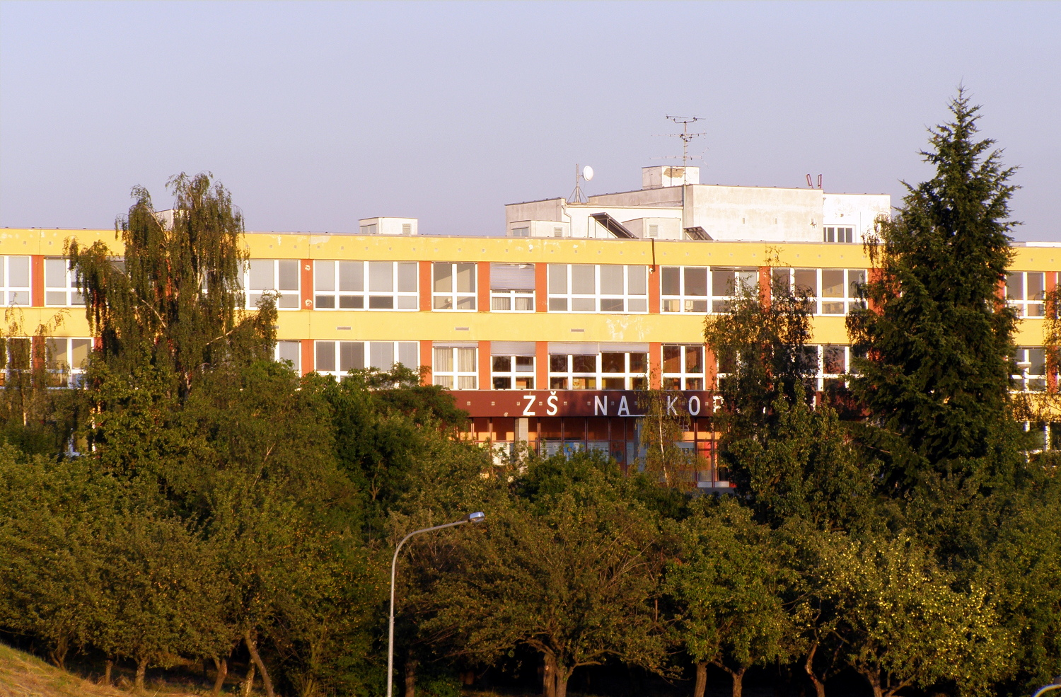 Třebíč-Nové Město. School Na Kopcích. Opened in 1996